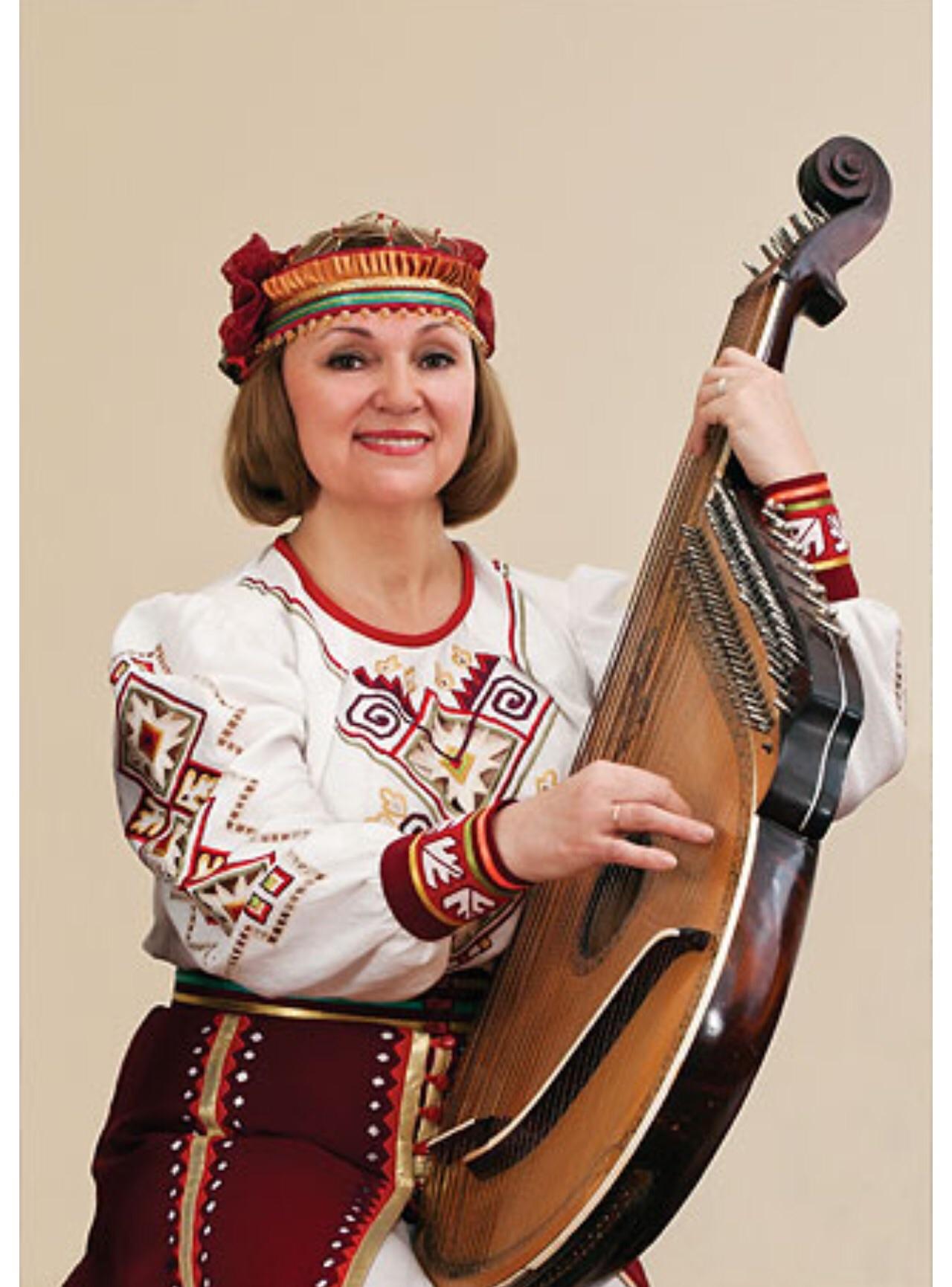 Malomuzh Tetyana